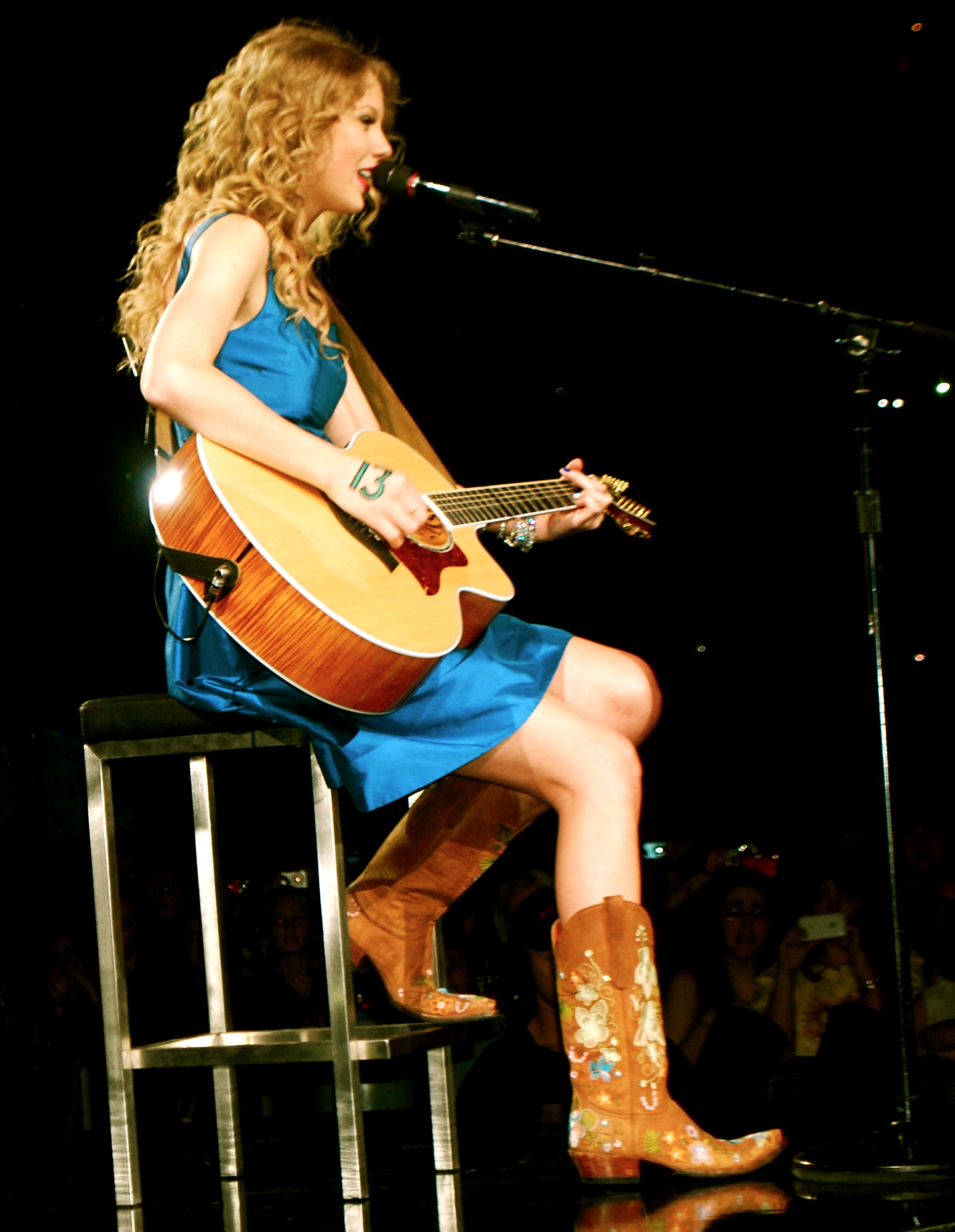 Taylor Swift Fearless Tour 2010 in Newark